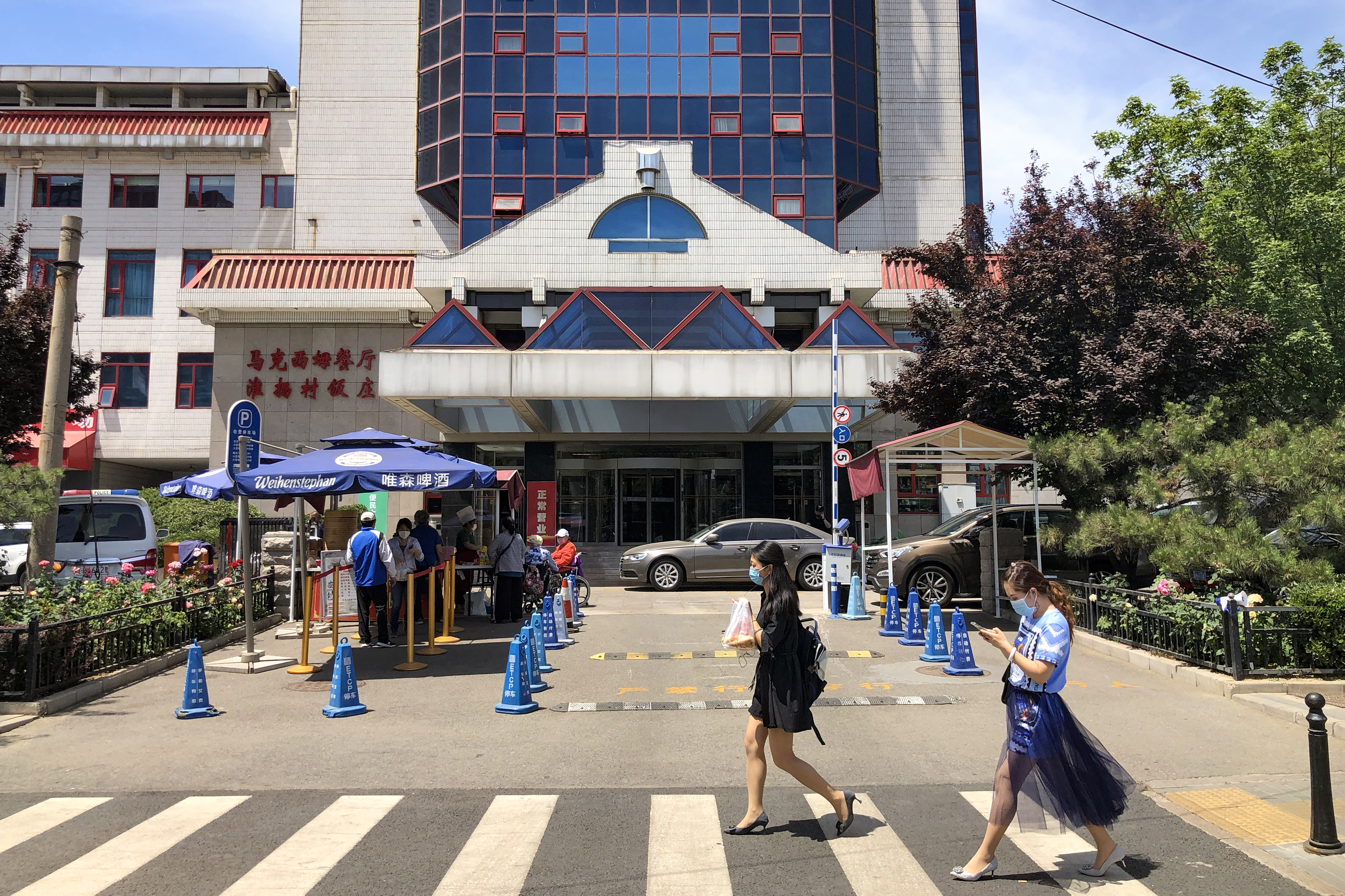 Maxim's on 2F.